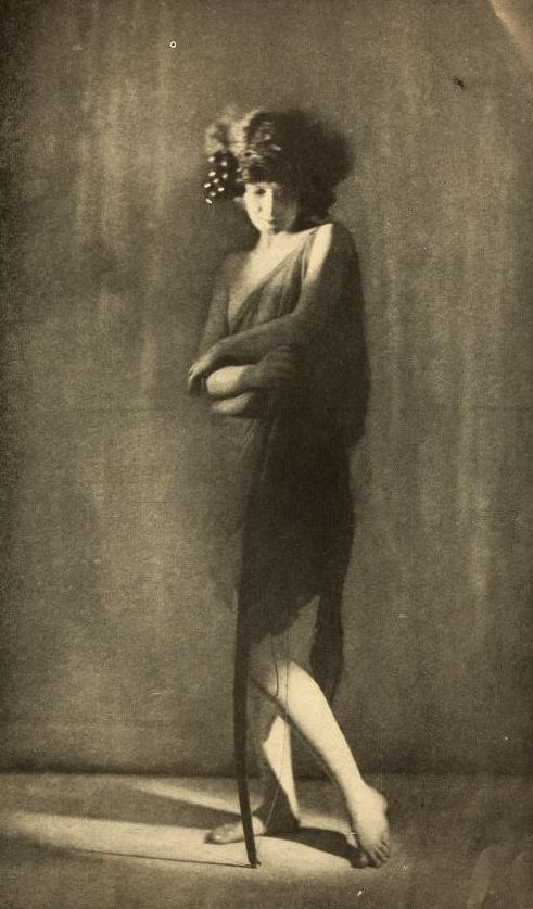 Dancer Doris Humphrey, on page 51 of the September 1922 Shadowland.